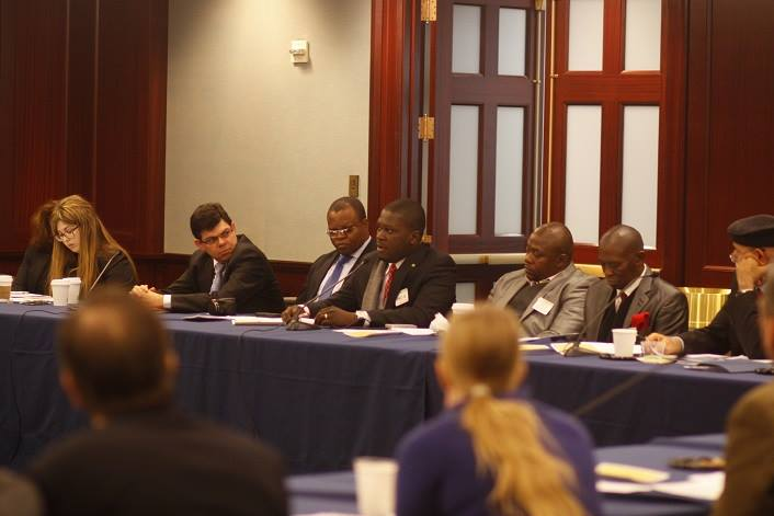 Malanga speaking at a human rights event on Capitol Hill.